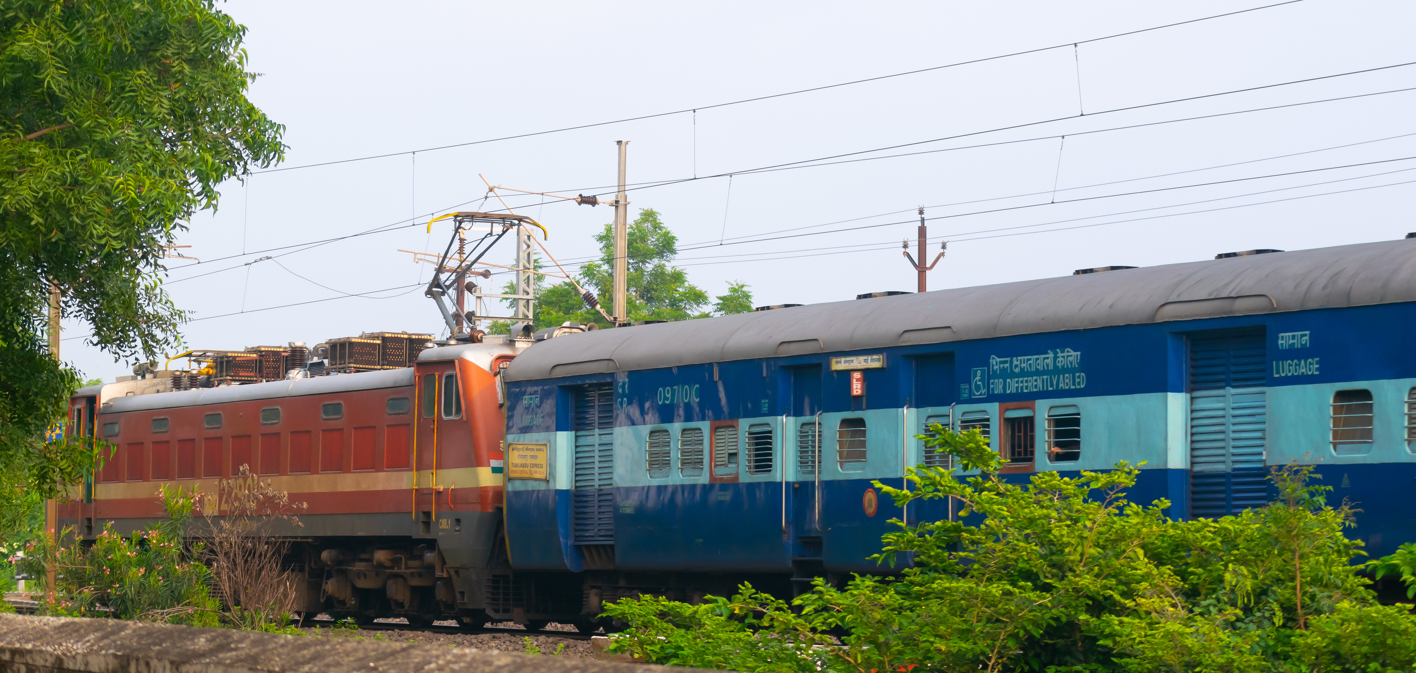 New Delhi bound Tamil Nadu Express near Warangal